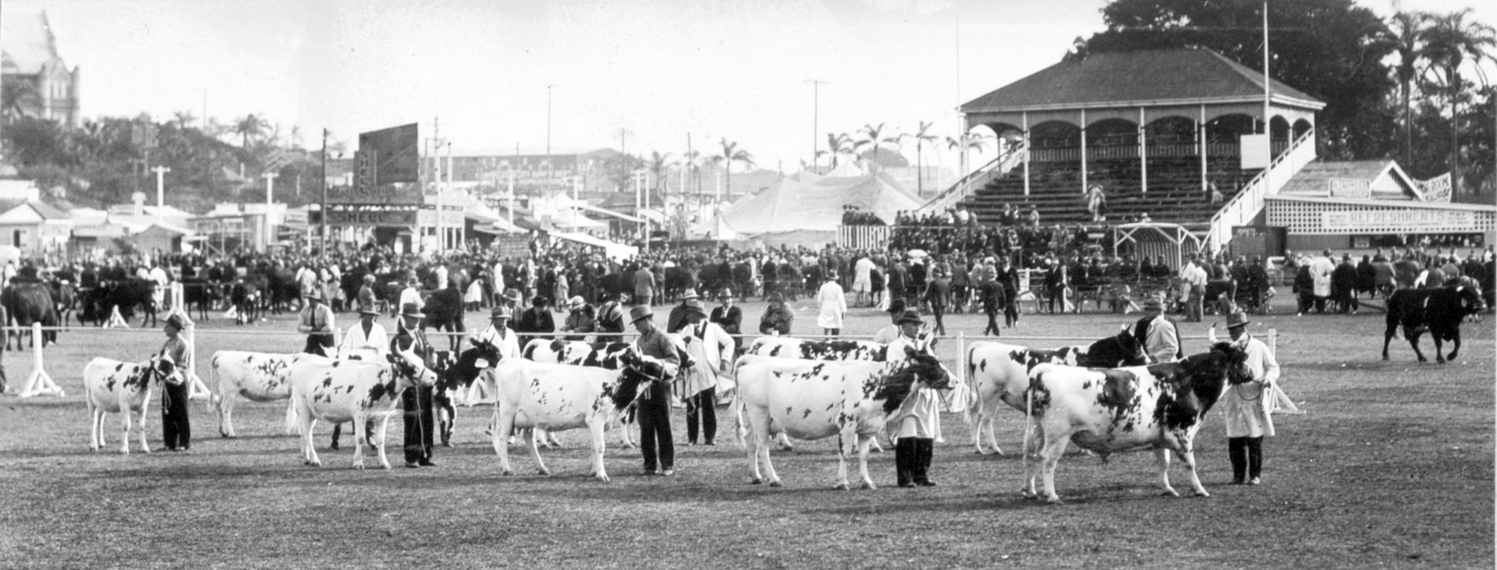 Queensland Times 15 August 1935 EXHIBITION STOCK. The West Moreton district again will be represented by Its best stock in the Brisbane Exhibition next week. This morning two special trains will leave the city, carrying approximately 200 cattle and a number of pigs. The complement from the Brisbane Valley line comprises about 90 cattle, which have come from Toogoolawah, Esk, Ottaba. Minora, Lowood, and Muirlea. Approximately 110 cattle will journey b: the second train, and these have come from Dugandan, Boonah, Roadvale, Munbllla. Harrlsville, and Peak Cosslng, on the Fassifern branch line. The number of stock this year for the Exhibition is almost the same as was sent last year. Queensland State Archives Item ID 392318, Photographic material